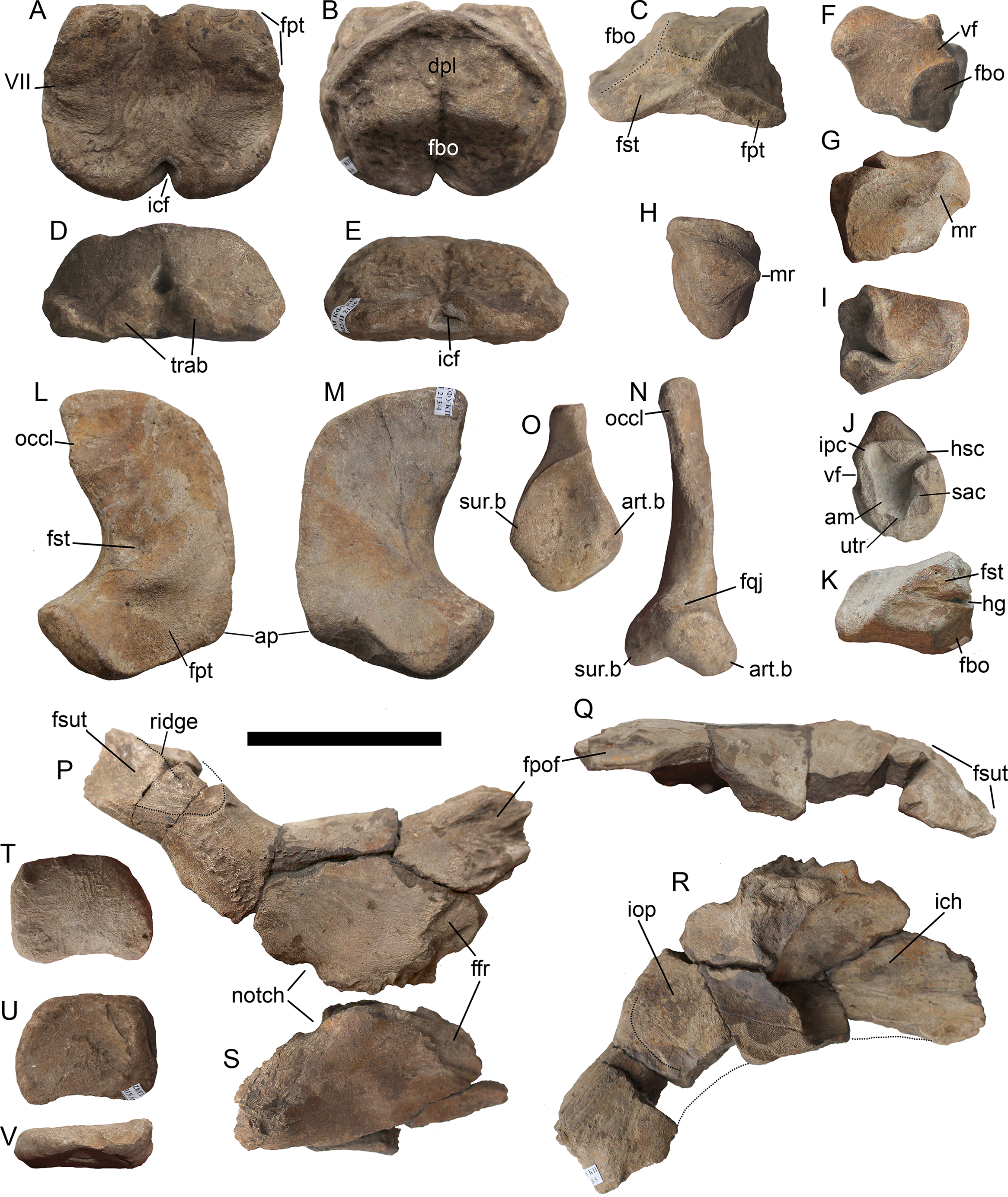 Cranial elements of Arthropterygius volgensis KSU 982/P-213. (A–E) Basisphenoid in ventral (A), dorsal (B), lateral (C), anterior (D), and posterior (E) views. (F, G, I, J) Left opisthotic in posterior (F), anterior (G), dorsal (I), and medial (J) views. (H, K) Right opisthotic in lateral (H) and ventral (K) views. (L–N) Left quadrate in posteromedial (L), anterolateral (M), and posterolateral (N) views. (O) Ventral view of the right quadrate. (P–R) Left parietal in dorsal (P), lateral (Q), and ventral (R) views; (S) partial right parietal in dorsal view. (T–V) Right articular in medial (T), lateral (U), and dorsal (V) views. Abbreviations: am, ampulla; art.b, articular boss; dpl, dorsal plateau of the basisphenoid; fbo, facet for the basioccipital; ffr, facet for the frontal; fpof, facet for the postfrontal; fpt, facet for the pterygoid; fqj, facet for the quadratojugal; fst, facet for the stapes; hg, groove for transmission of hyomandibular branch of facial (VII) or glossopharyngeal (XI) nerve; hsc, impression of horizontal semicircular canal; icf, foramen for the internal carotid arteries; ich, impression of the cerebral hemisphere; iop, impression of the optic lobe; ipc, impression of posterior vertical semicircular canal; fsut, facet for the supratemporal; mr, muscular ridge on the opisthotic; occl, occipital lamella; sac, sacculus; sur.b, surangular boss; trab, facets for cartilaginous continuation of the cristae trabeculares; ut, utriculus; vf, vagus foramen; VII, groove of the palatine ramus of facial (VII) nerve. Scale bar represents five cm.